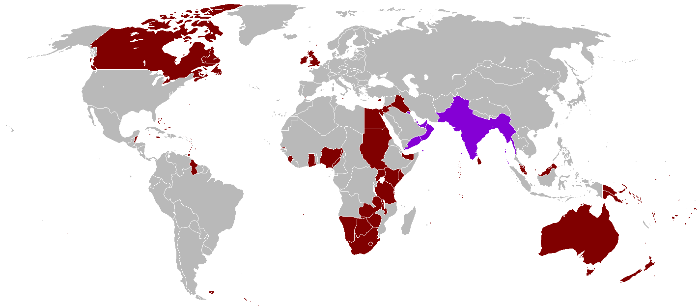 A map of the British Empire in 1921 when it was at its height with British India indicated when it too was at its height as well.